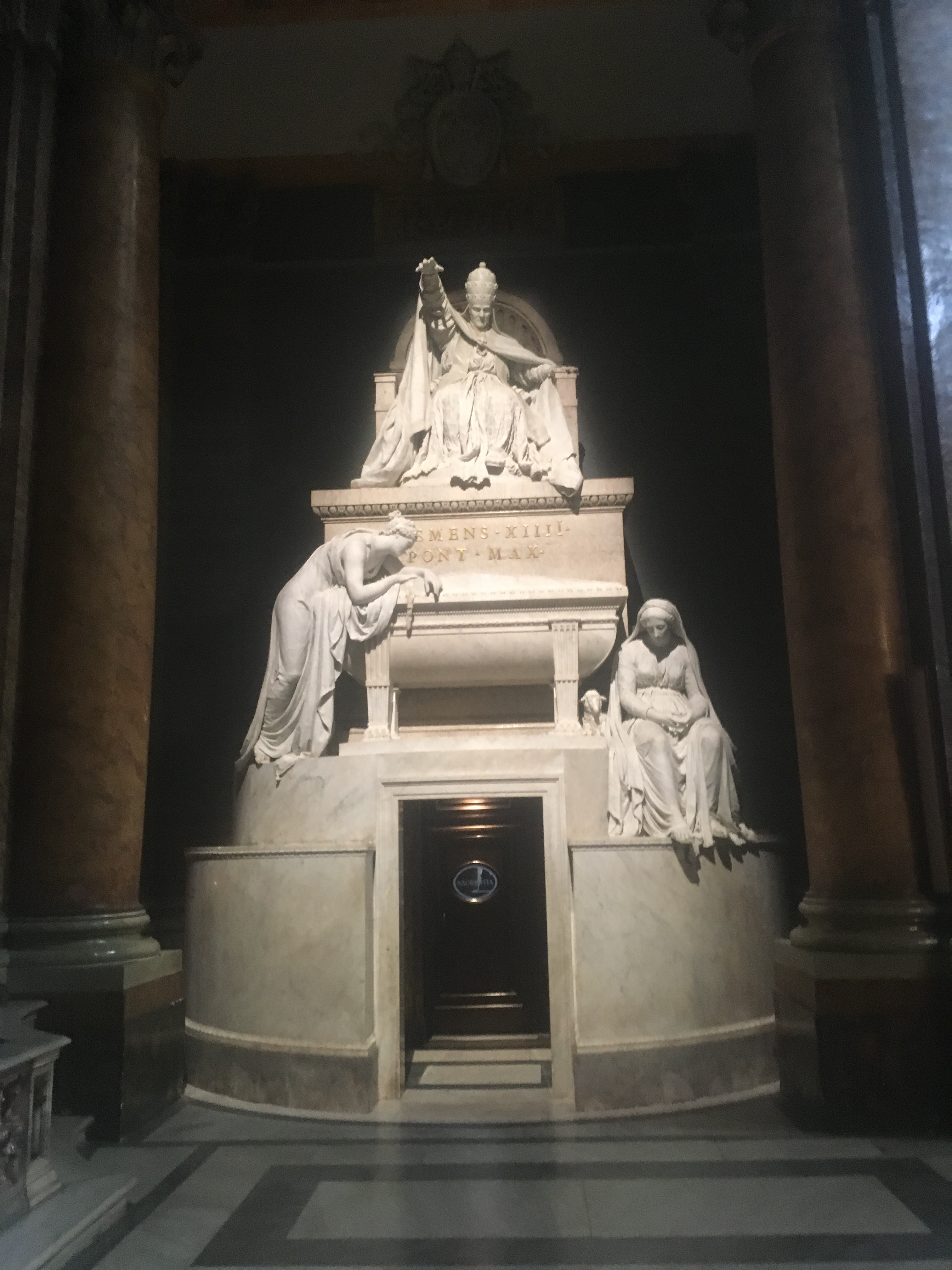 Tomb of Pope Clement XIV at Santi Apostoli Roma